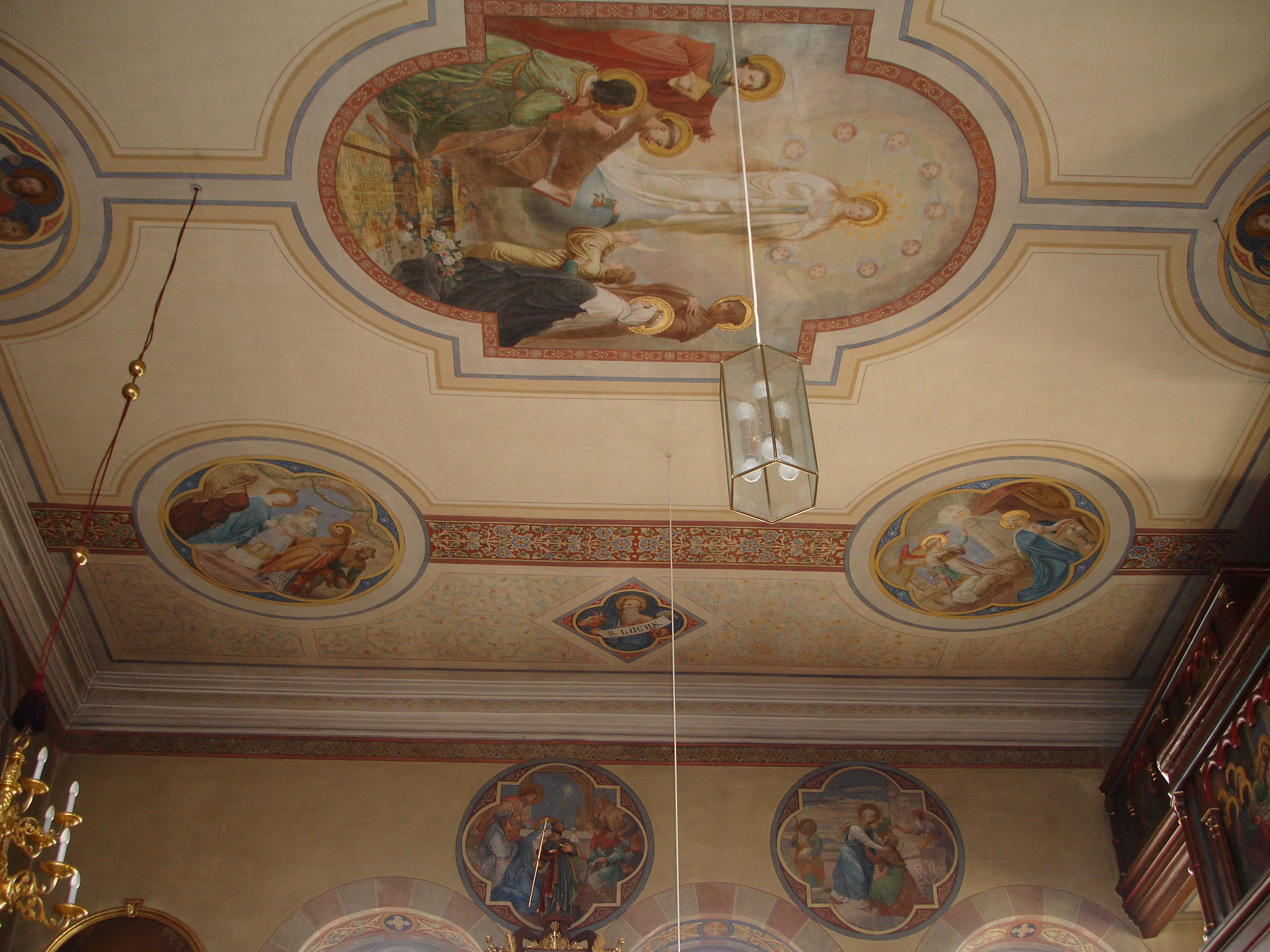 Detail of the neoromanic interior painting of the pilgrimage church "Maria Victory"; painter: Eulogius Boehler)